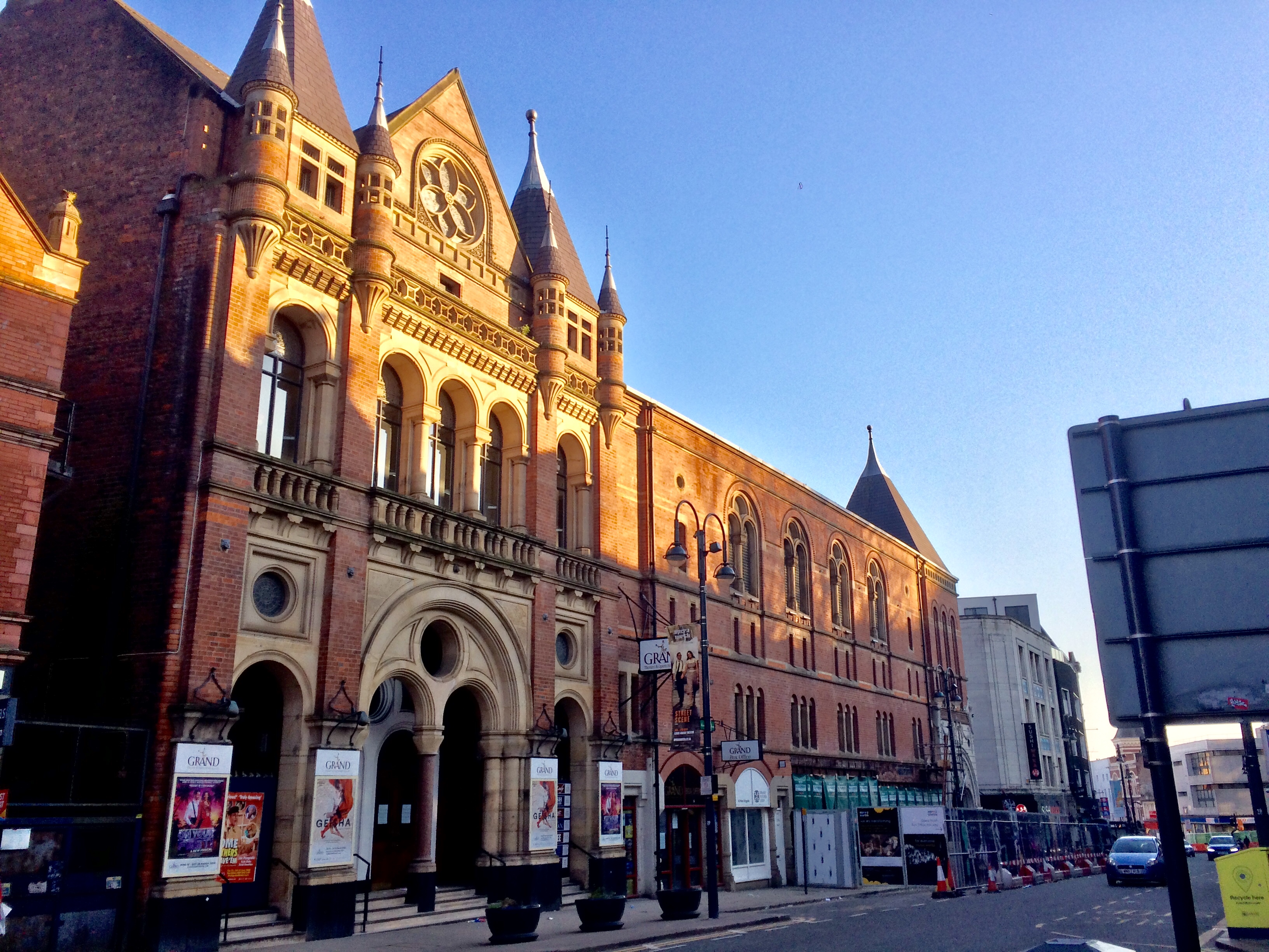 Grand Theatre, Leeds from New Briggate